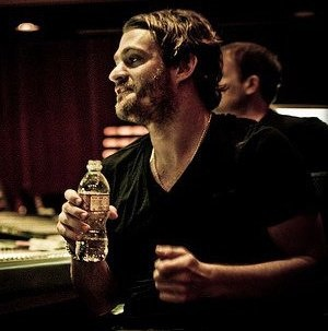 Alex James at work in the studio, taken by fan Riceflour. James was working with a demo singer as she recorded one of his songs for demonstration to various artists.